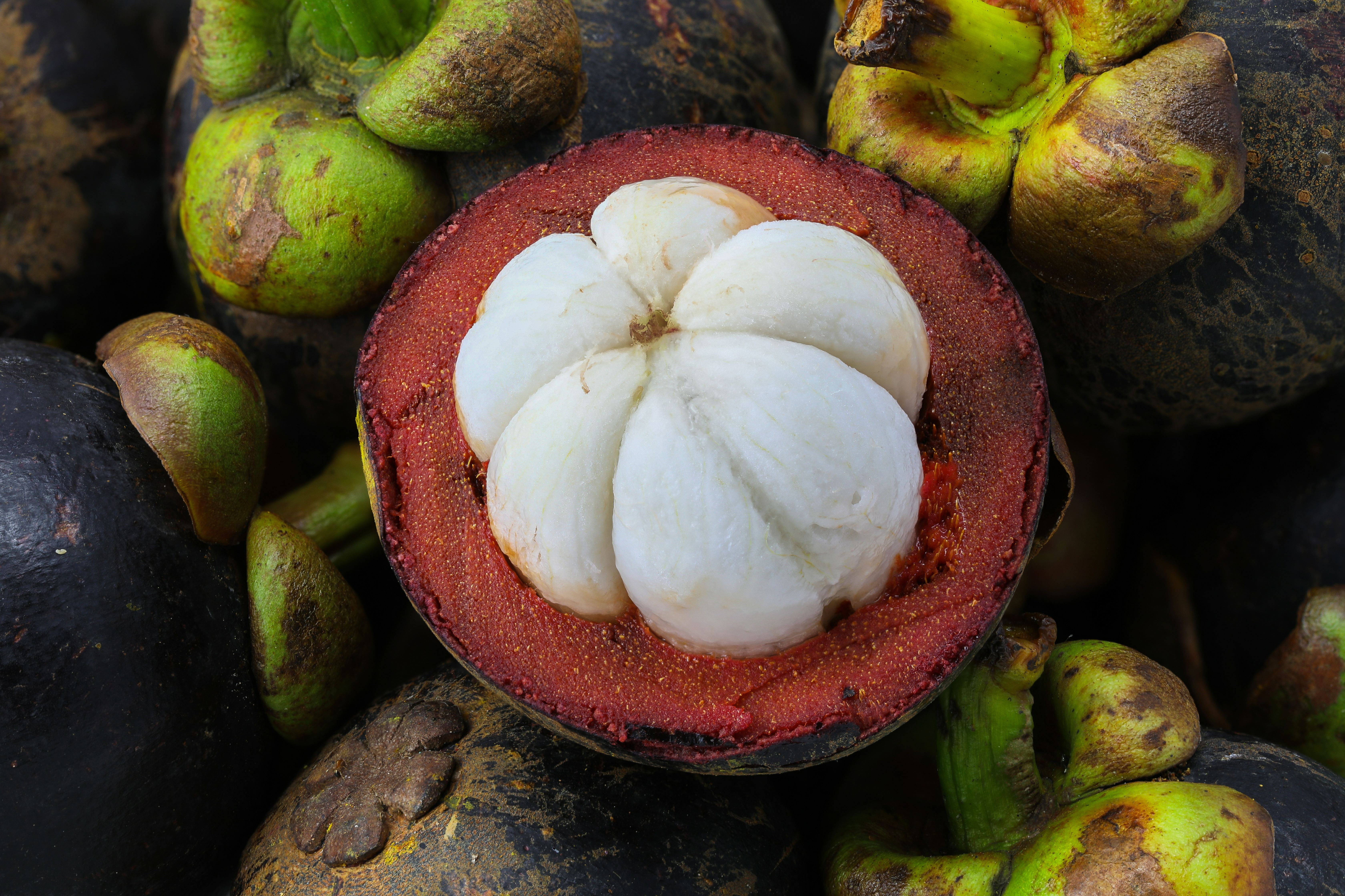 Purple mangosteen, sweet, tangy and juicy fruit, shown in cross section. Focus stacking from 7 pictures